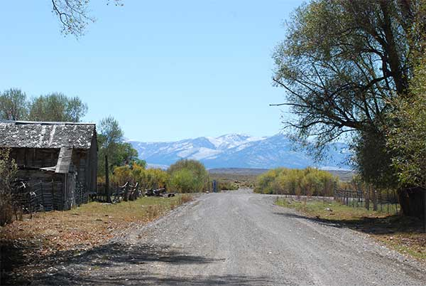 The roadway through Ibapah. View to west.